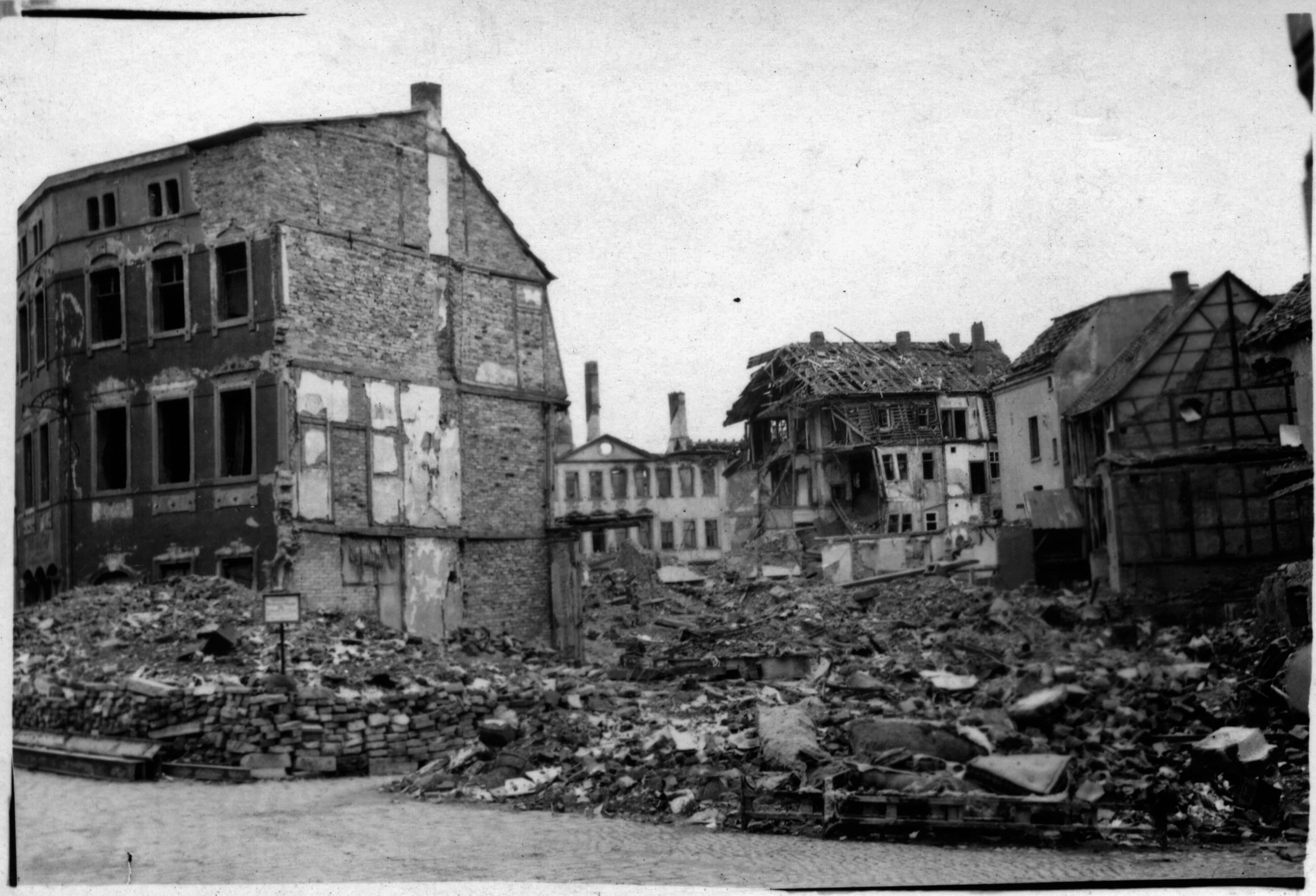 This photo was taken by my father, Max Wantman, while he was part of the American occupation forces in Gera in 1945.